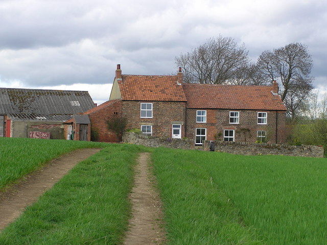 Coldsides.